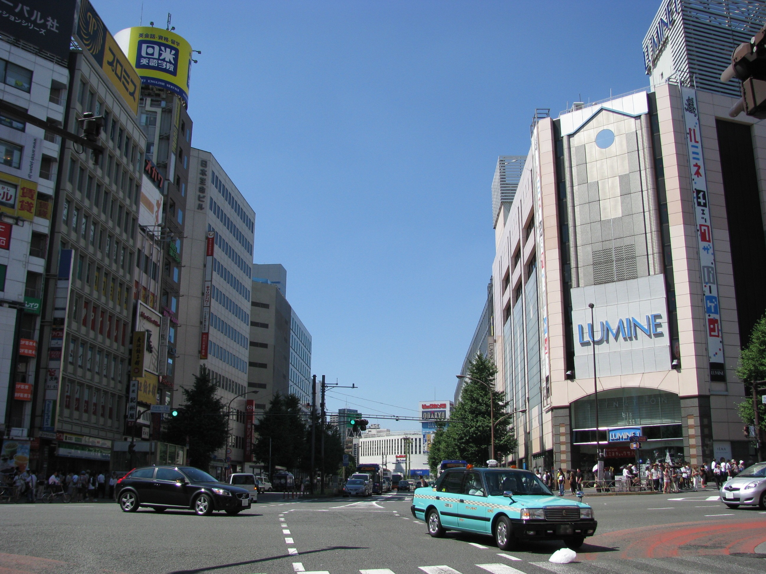 The Tokyo Prefectural Route 414. This location is Nishi-Shinjuku in Shinjuku, Tokyo, Japan.